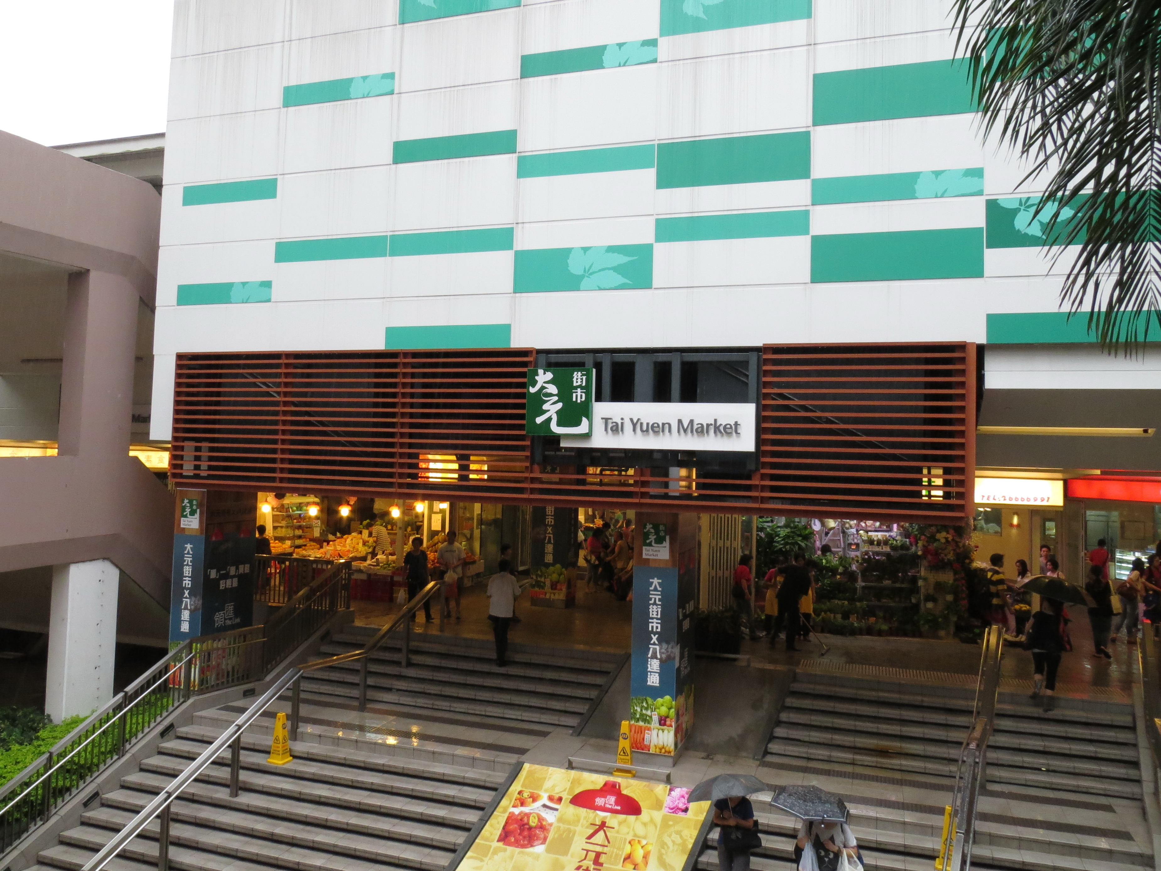 Tai Yuen Market, Tai Yuen Estate, Tai Po, New Territories, Hong Kong.